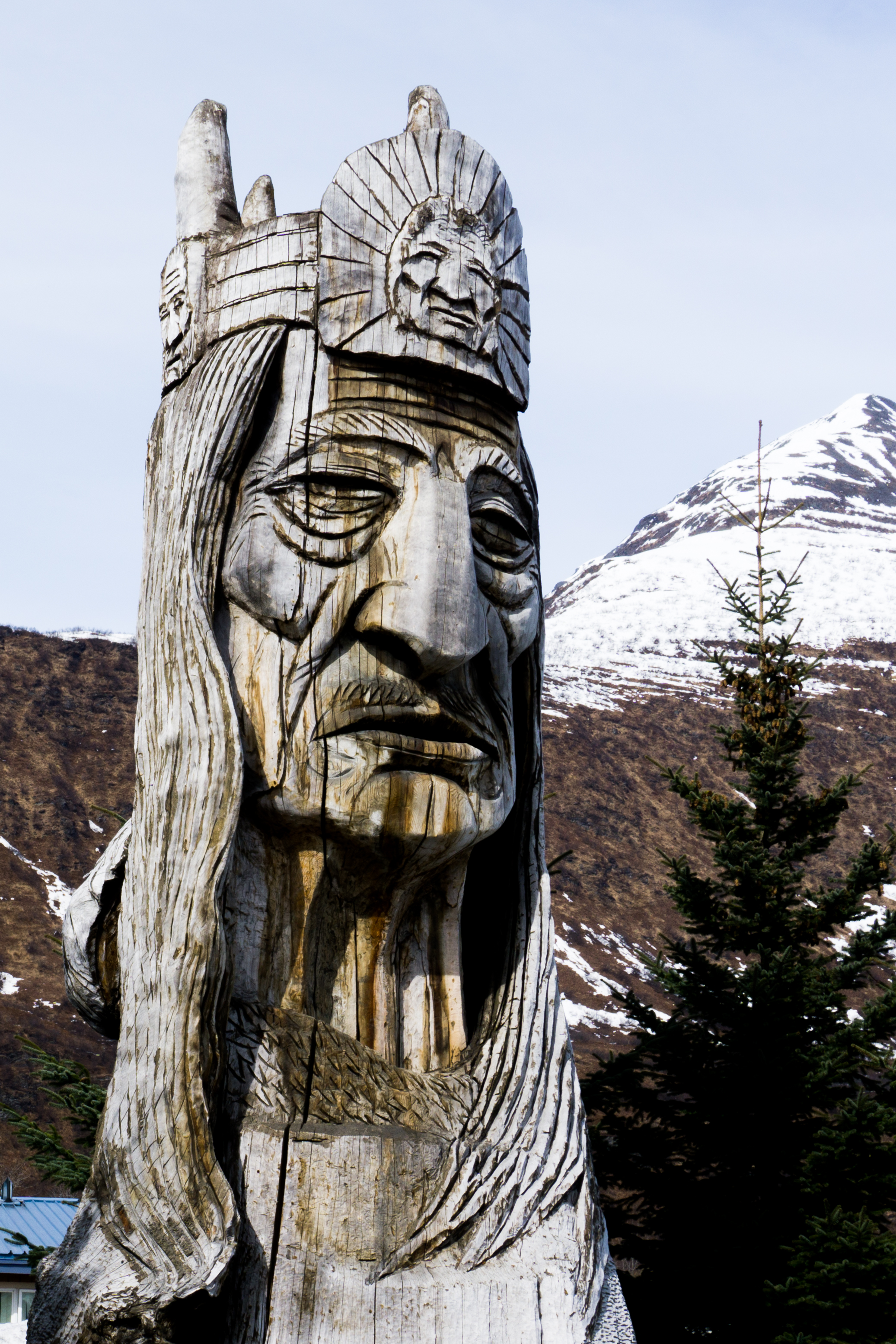 Totem in Valdez, Alaska with mountain background